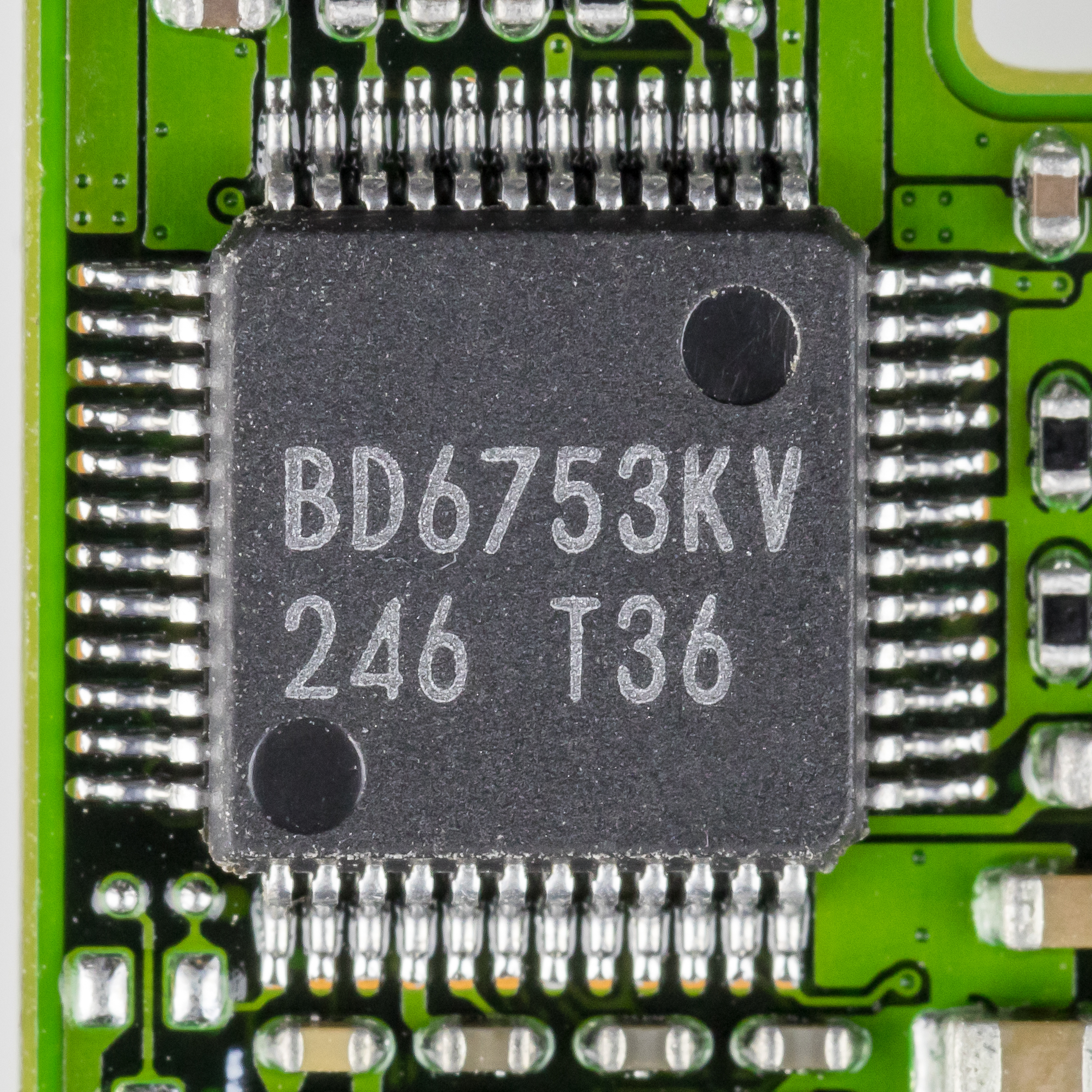 Canon PowerShot S45 - main board - Rohm BD6753KV - 6-Channel System Lens Driver for Digital Still Cameras. Package: VQFP48C